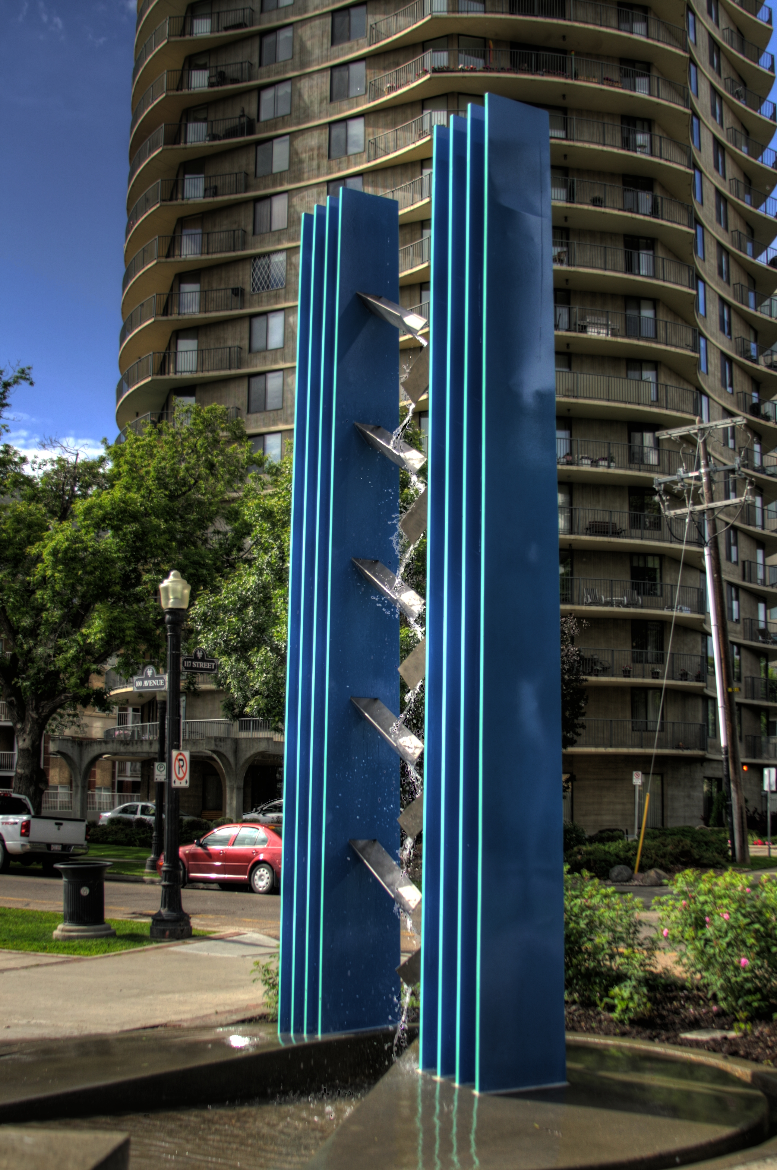 The Oliver Convergence Fountain in operation in Edmonton, Alberta, Canada.